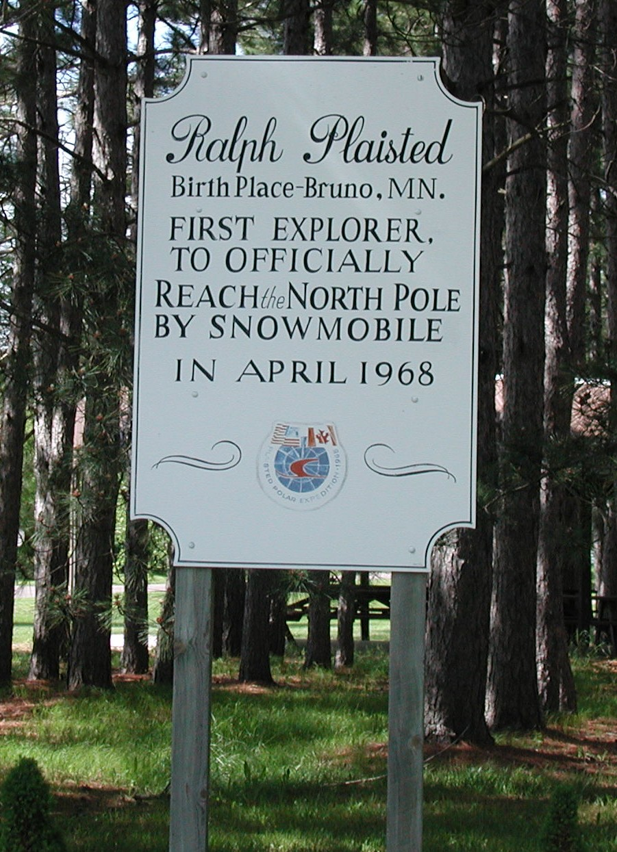 Sign indicating the birthplace of Ralph Plaisted in Bruno, Minnesota, USA.